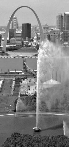 Gateway Fountain Looking West past the 600' tall Gateway Fountain in East St. Louis, Illinois, across the Mississippi River, at the 630' Gateway Arch, in the Jefferson National Expansion Memorial Park, in downtown St. Louis, Missouri. Taken May 18, 2005 The full iamge in color with entire fountain and most of the St. Louis skyline is available. Photographed by